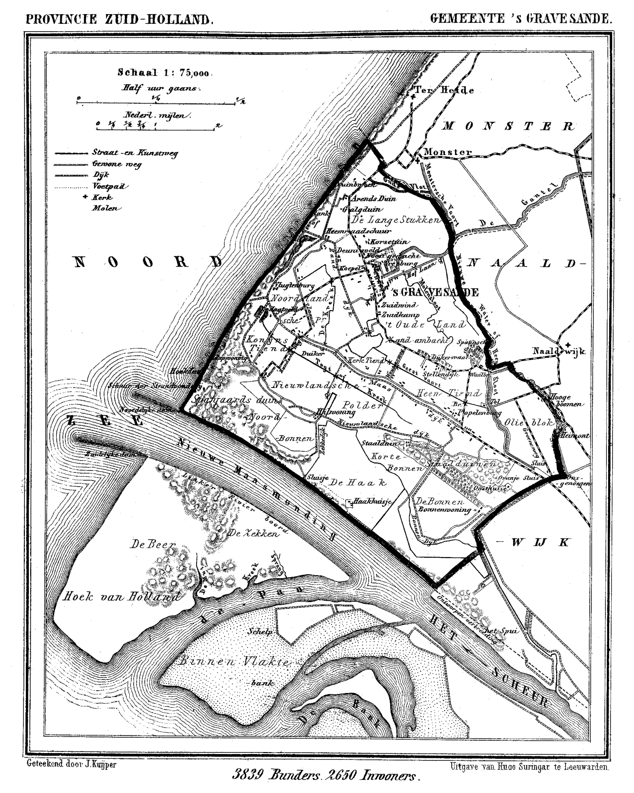 Historic map of 's-Gravesande (now part of municipality Westland), South Holland, the Netherlands